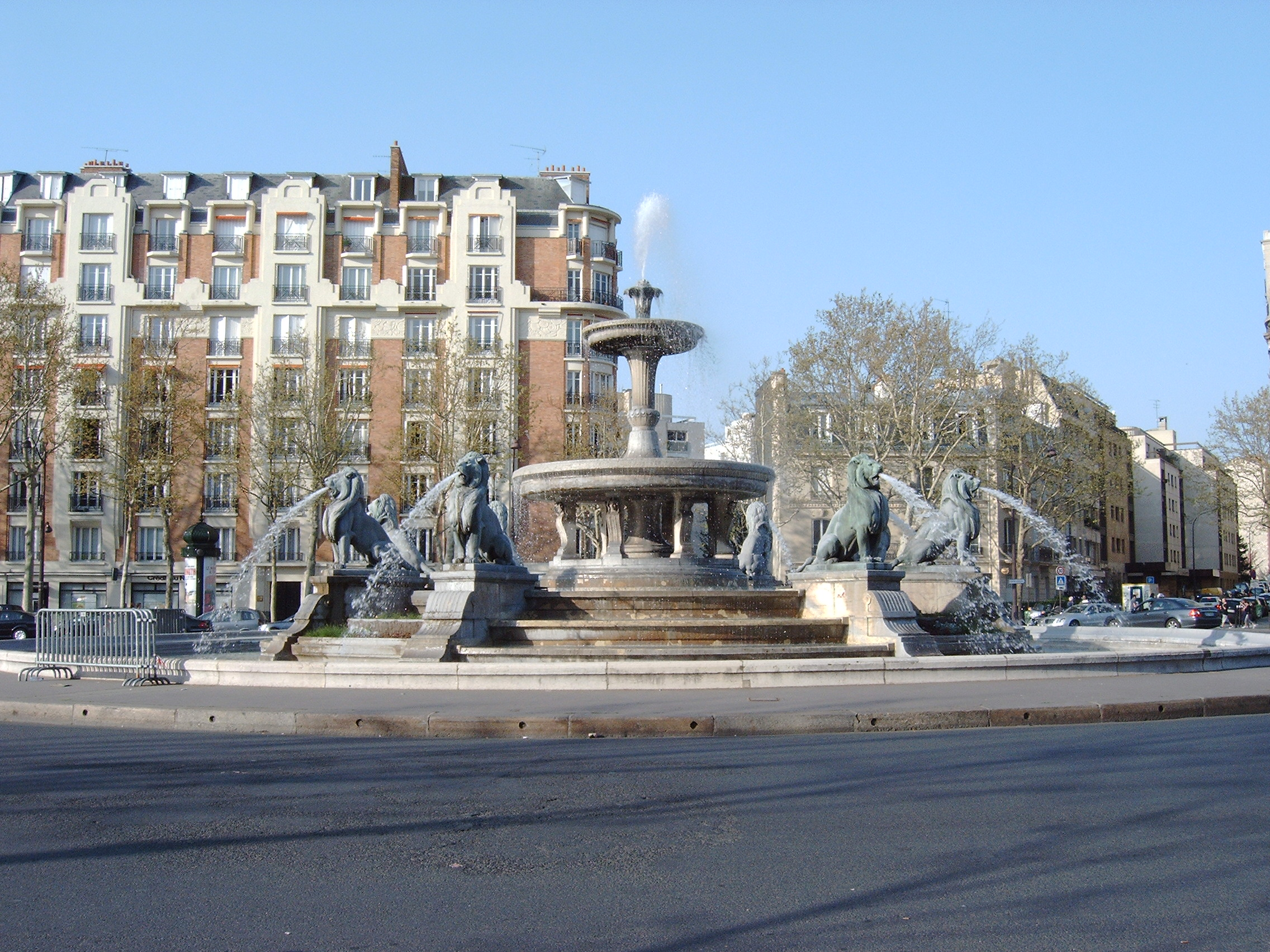 Fountain by Gabriel Davioud. Lions by Alfred Jacquemart. Sculpted corbels by Louis Villeminot Architecture : Gabriel Davioud (1823–1881) Description French architect Date of birth/death30 October 1823 or 30 October 18246 April 1881Location of birth/deathParisParisAuthority control VIAF: 60138916 GND: 128571993 BnF: cb119526617 ULAN: 500018424 ISNI: 0000 0001 1765 9117 WP-Person Scultpure (lions) : Henri Alfred Jacquemart (1824–1896) Description French sculptor Date of birth/death24 February 18244 January 1896Location of birthParisAuthority control VIAF: 17496618 ULAN: 500034131 Sculpture (corbels) : Louis Villeminot (1826–1914) Description French sculptor Date of birth/death1826after 1914